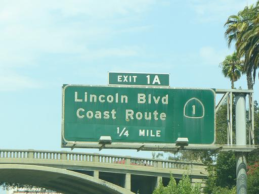 The start of I-10 in Santa Monica, at its junction with California State Route 1